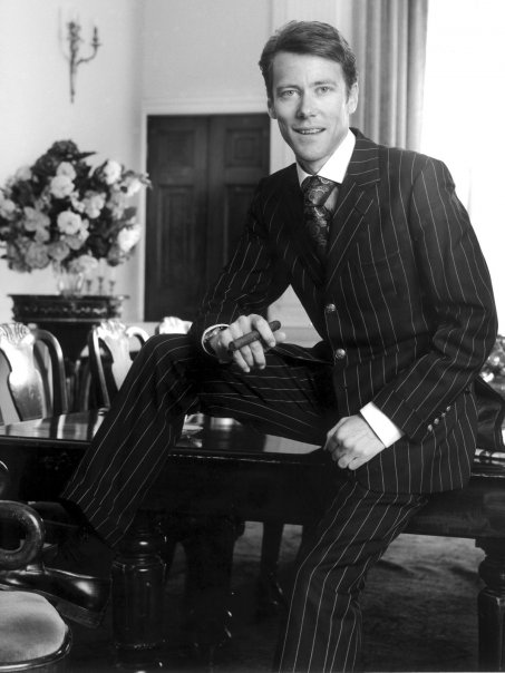 My portrait of Edward Davenport, taken at his home on Portland Place